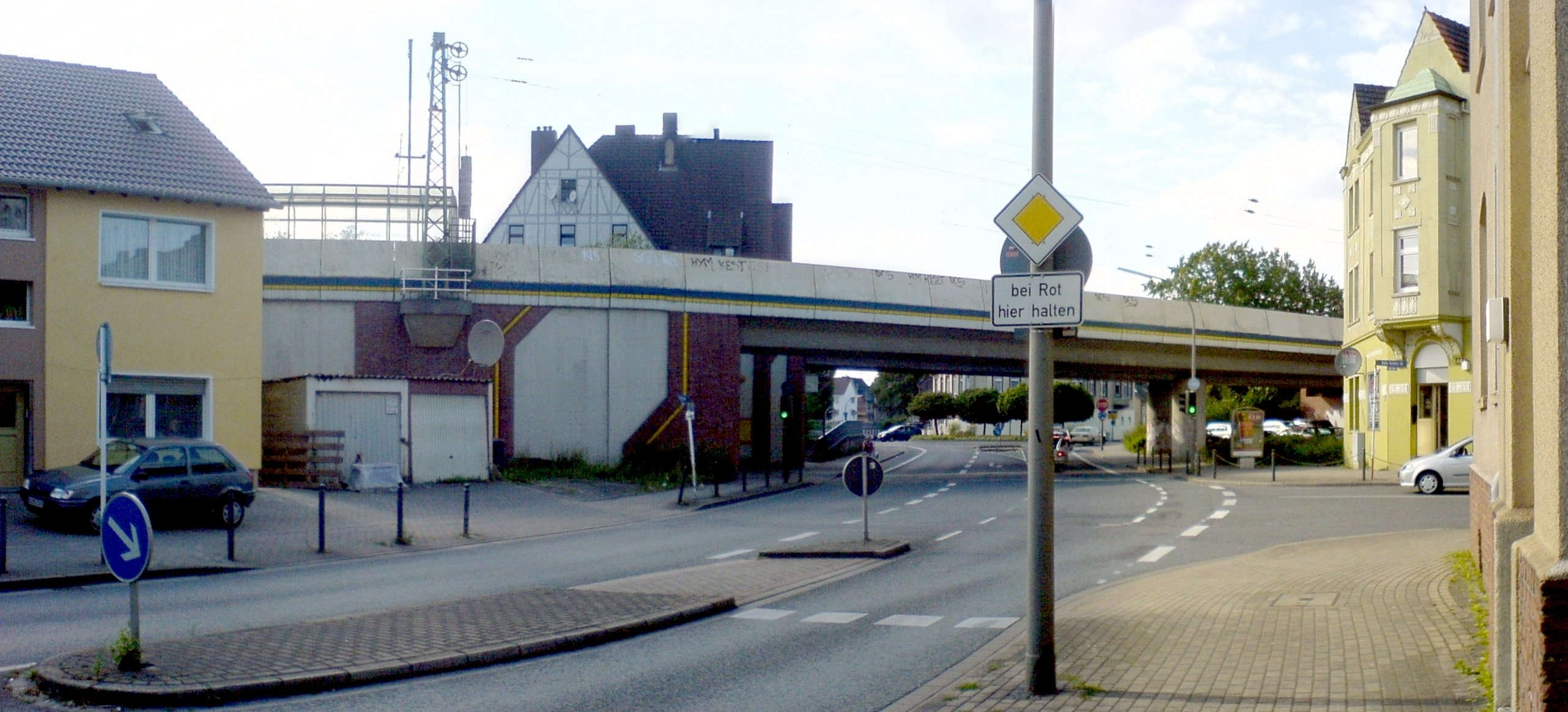 Bahnhof Dortmund-Nette This panoramic image was created with Autostitch. Stitched images may differ from reality.